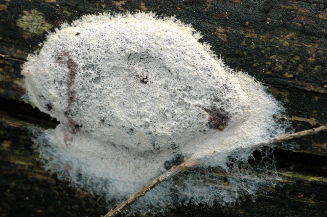 Probably Fuligo candida in Commanster, Belgian High Ardennes. The determination of the species shown in this picture has been verified.